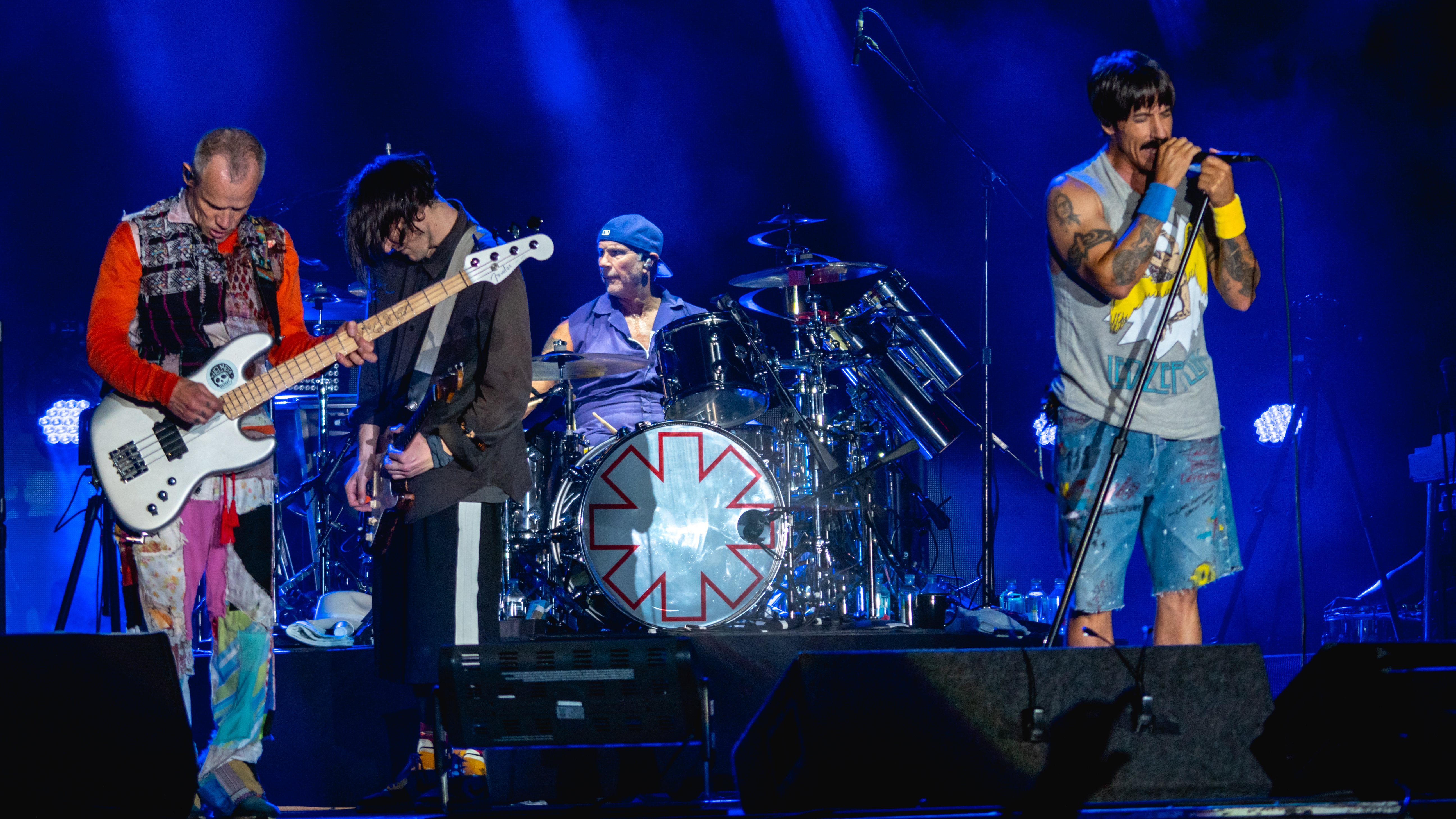 American rock band Red Hot Chili Peppers performing at the Ohana Festival 2019 in Doheny Beach, California, on September 29, 2019